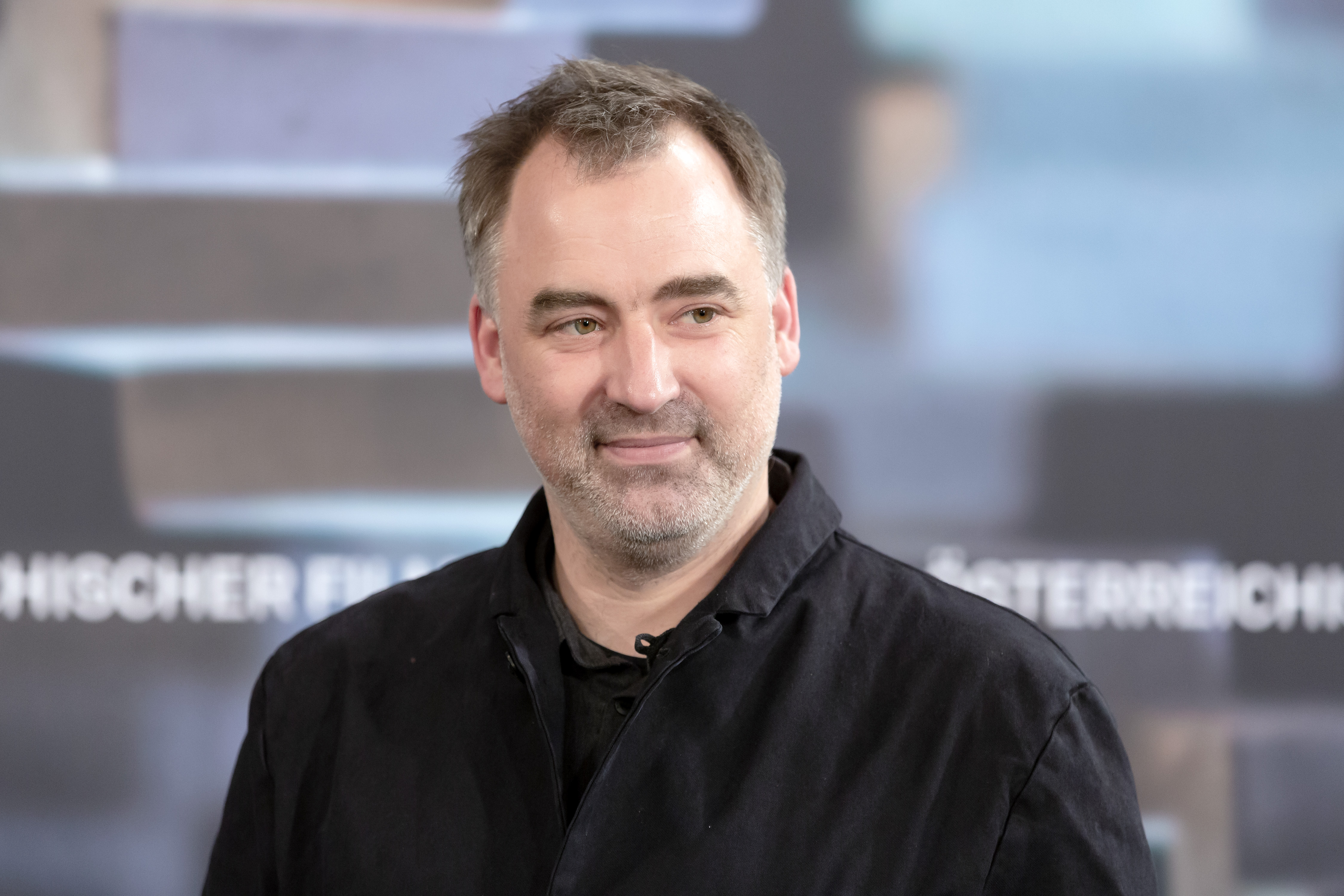 Bernhard Fleischmann (music "L’Animale"), photo call at the Austrian Film Awards 2019 (Rathaus, Vienna,Austria).